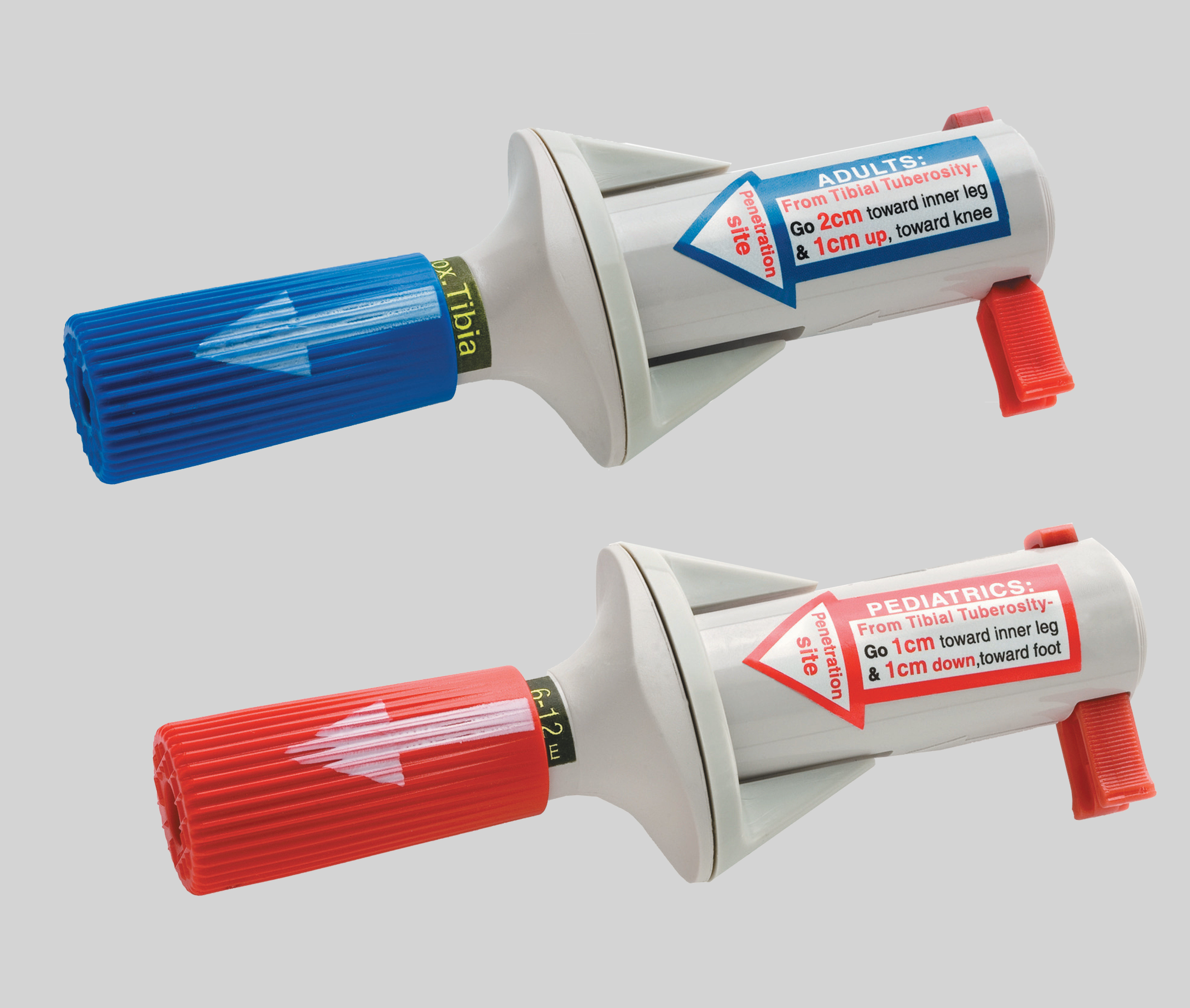 IO devices